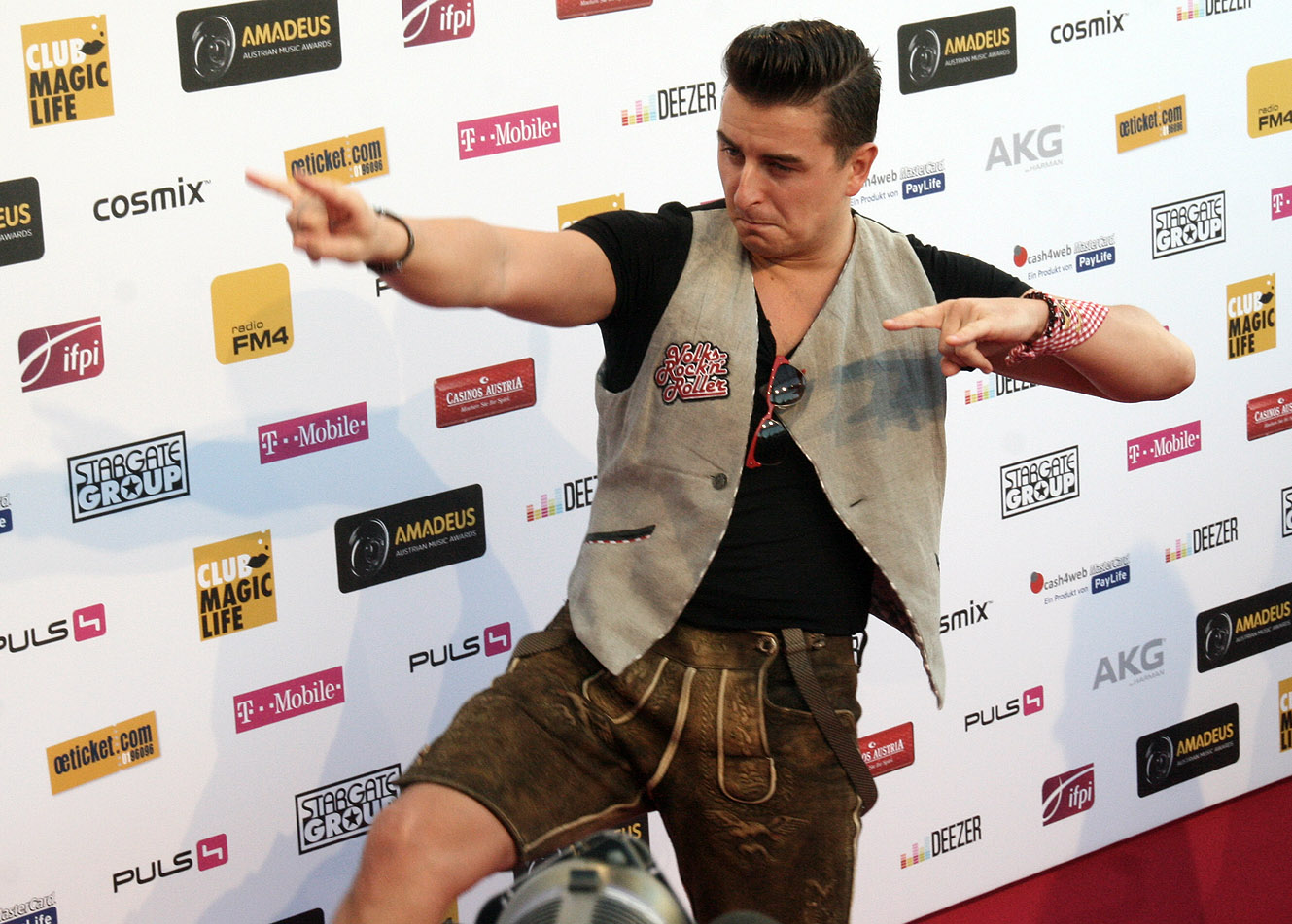 Andreas Gabalier, Amadeus Austrian Music Award 2012 at the Volkstheater in Vienna, Austria.